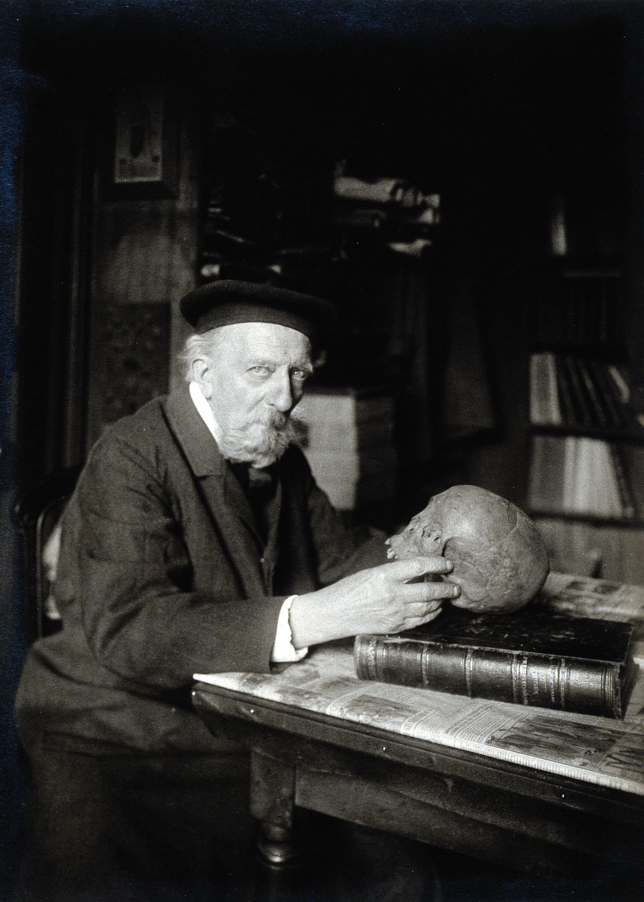 Adrien de Mortillet, holding a skull. Photograph. Iconographic Collections Keywords: portrait photographs